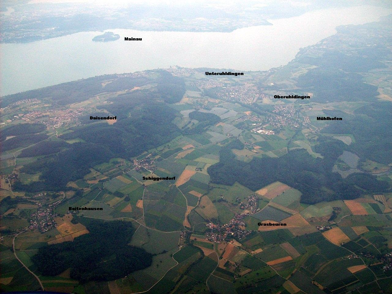 Aerial view from Lake Constance with the island Mainau in the background. Also the villages Baitenhausen, Daisendorf, Schiggendorf, Grasbeuren, Mühlhofen, Oberuhldingen and Unteruhldingen.